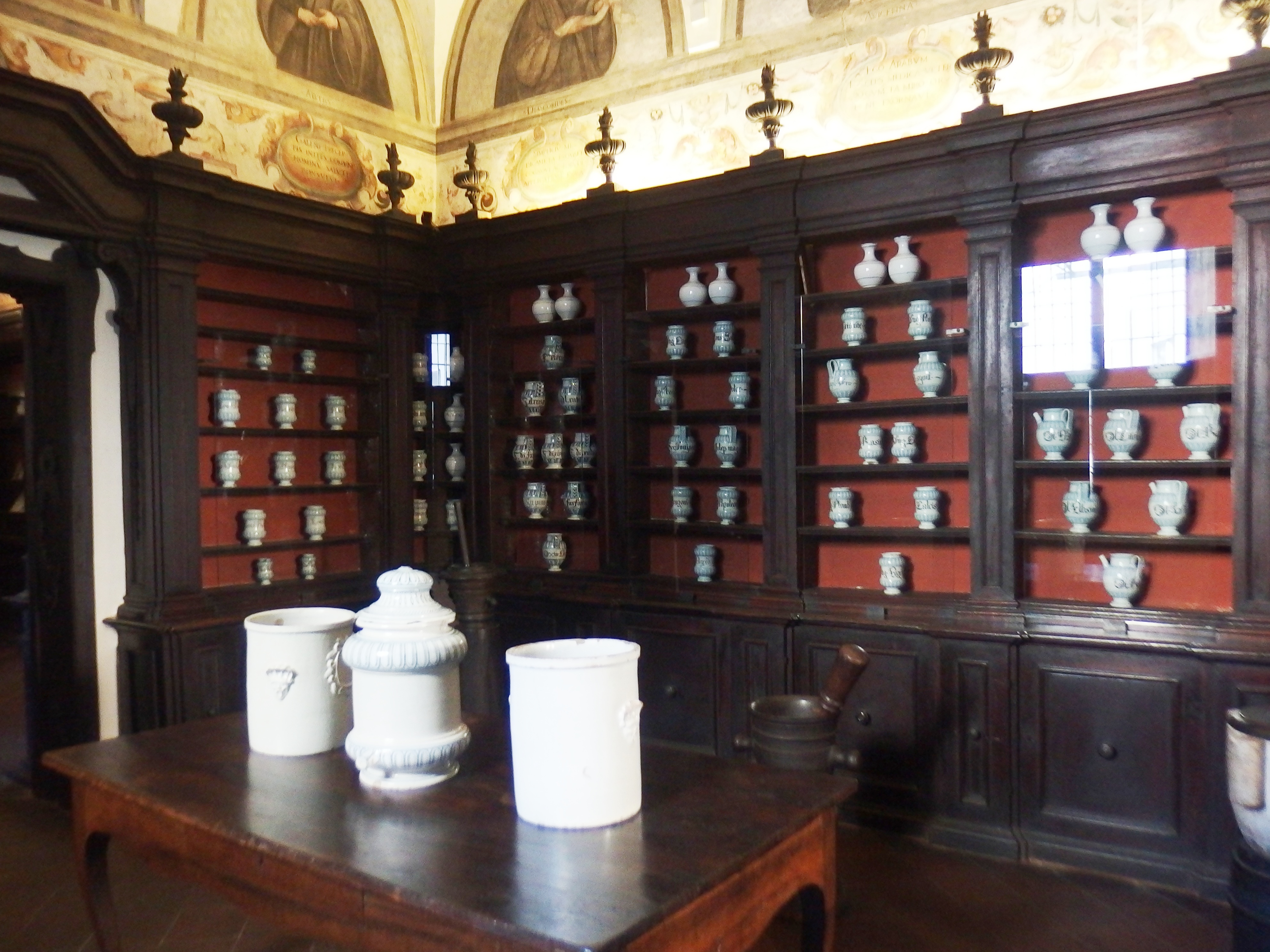 Parma, Italy. Ancient pharmacy at the Monastery of Saint John the Baptist.